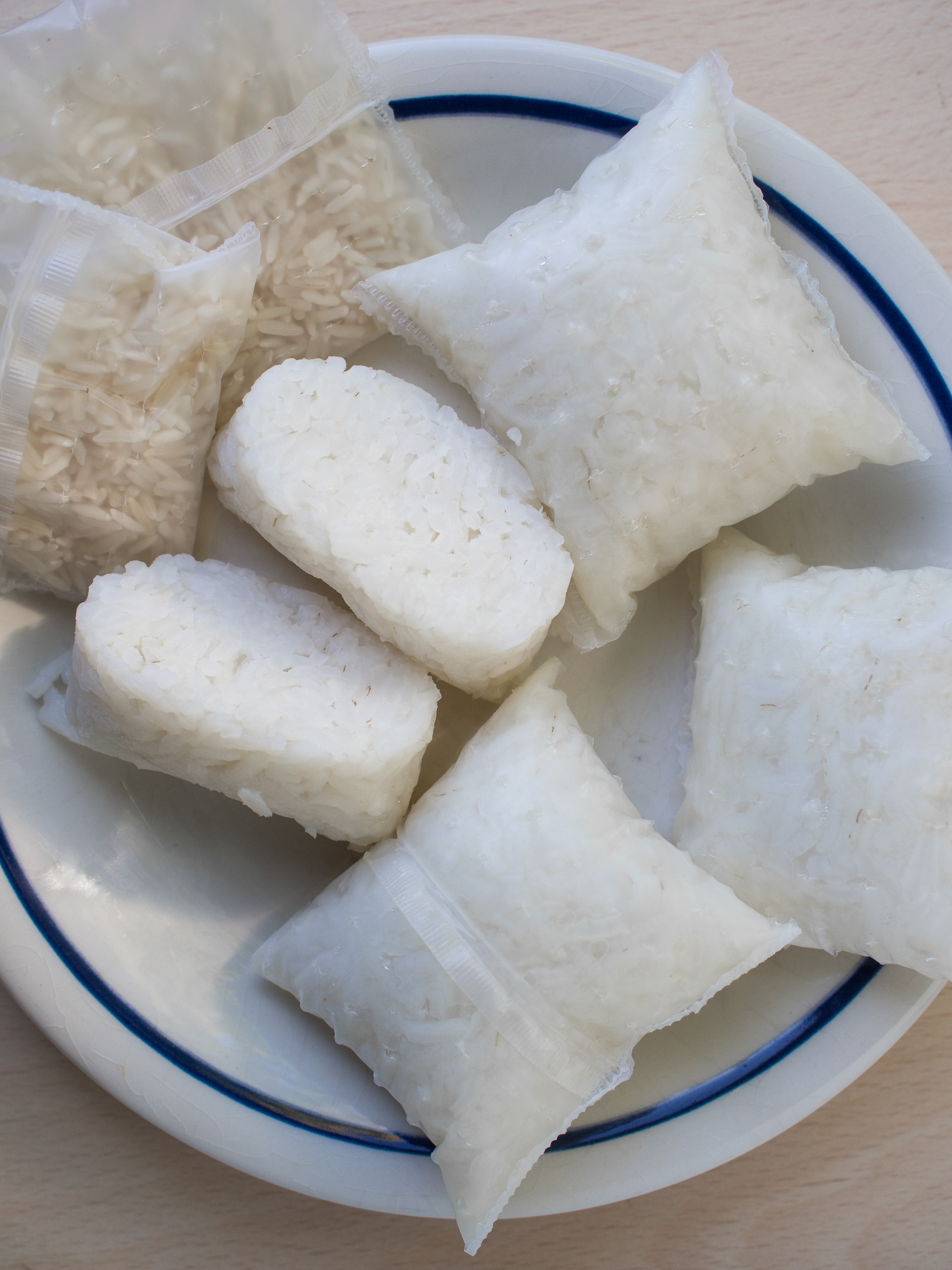 Image showing prepackaged lontong (Indonesian rice cakes) in 3 stages: in the upper left corner the rice is still raw in their perforated packets, to the right the rice has been boiled, and in the middle are two halves of a boiled rice cake, taken out from their packet.